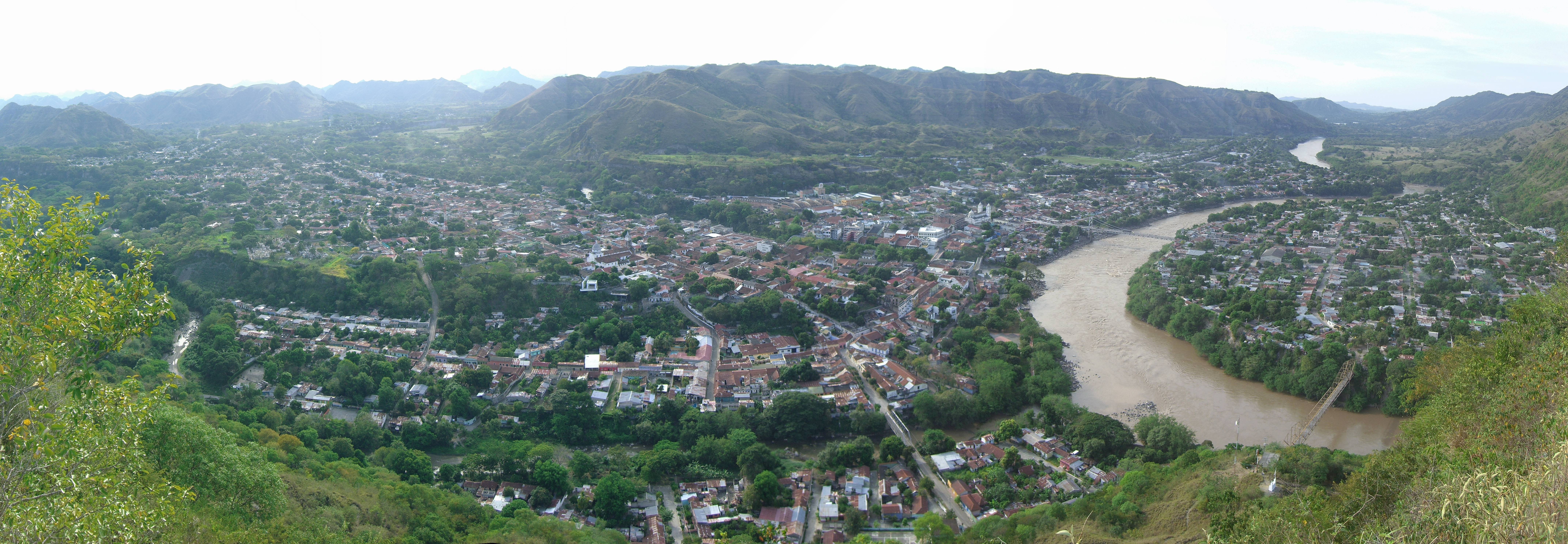 Please report references to .